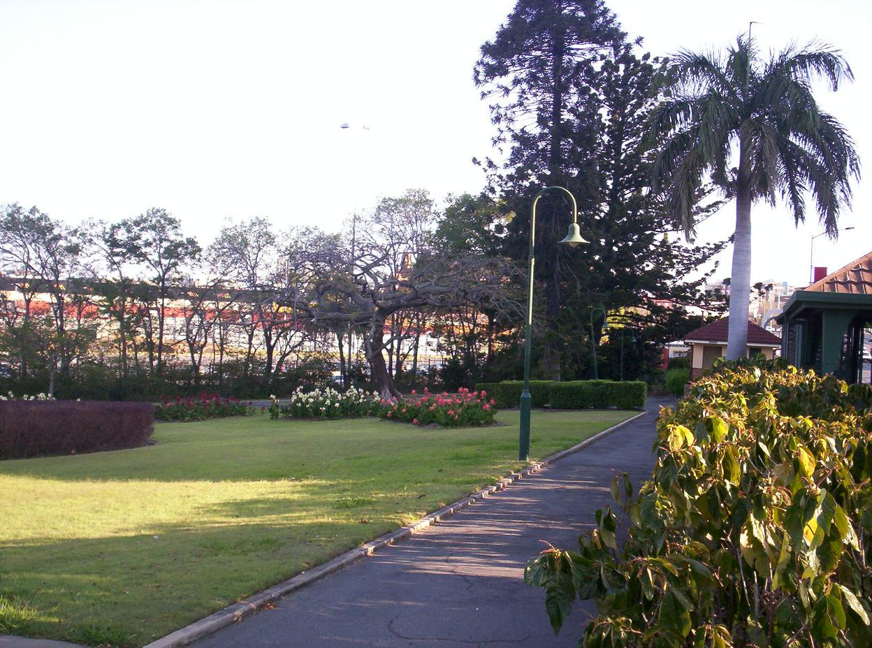 Bowen Park, Brisbane ( this photograph was taken by Figaro )